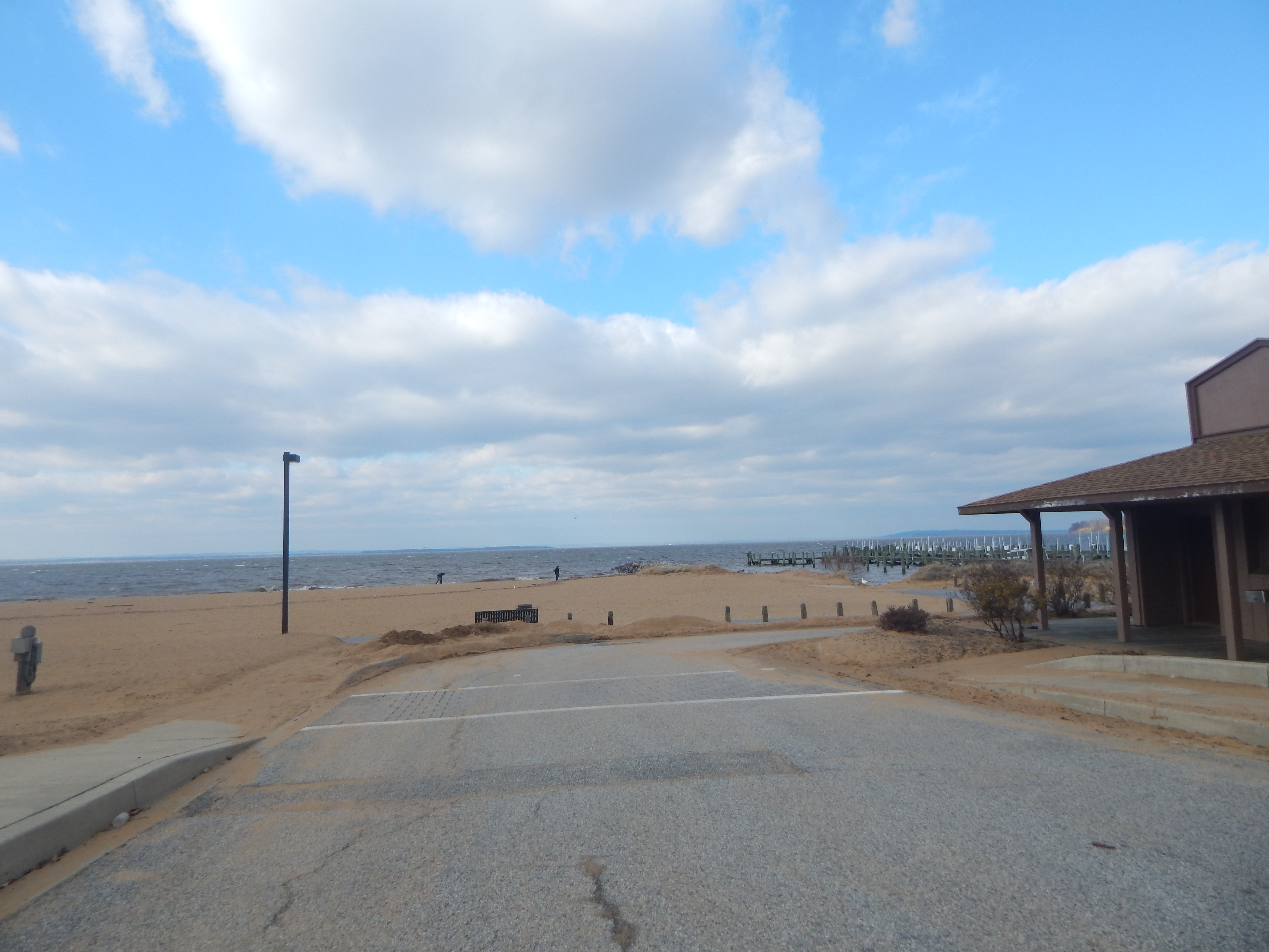 Maryland Route 292's terminus in Betterton, Maryland.